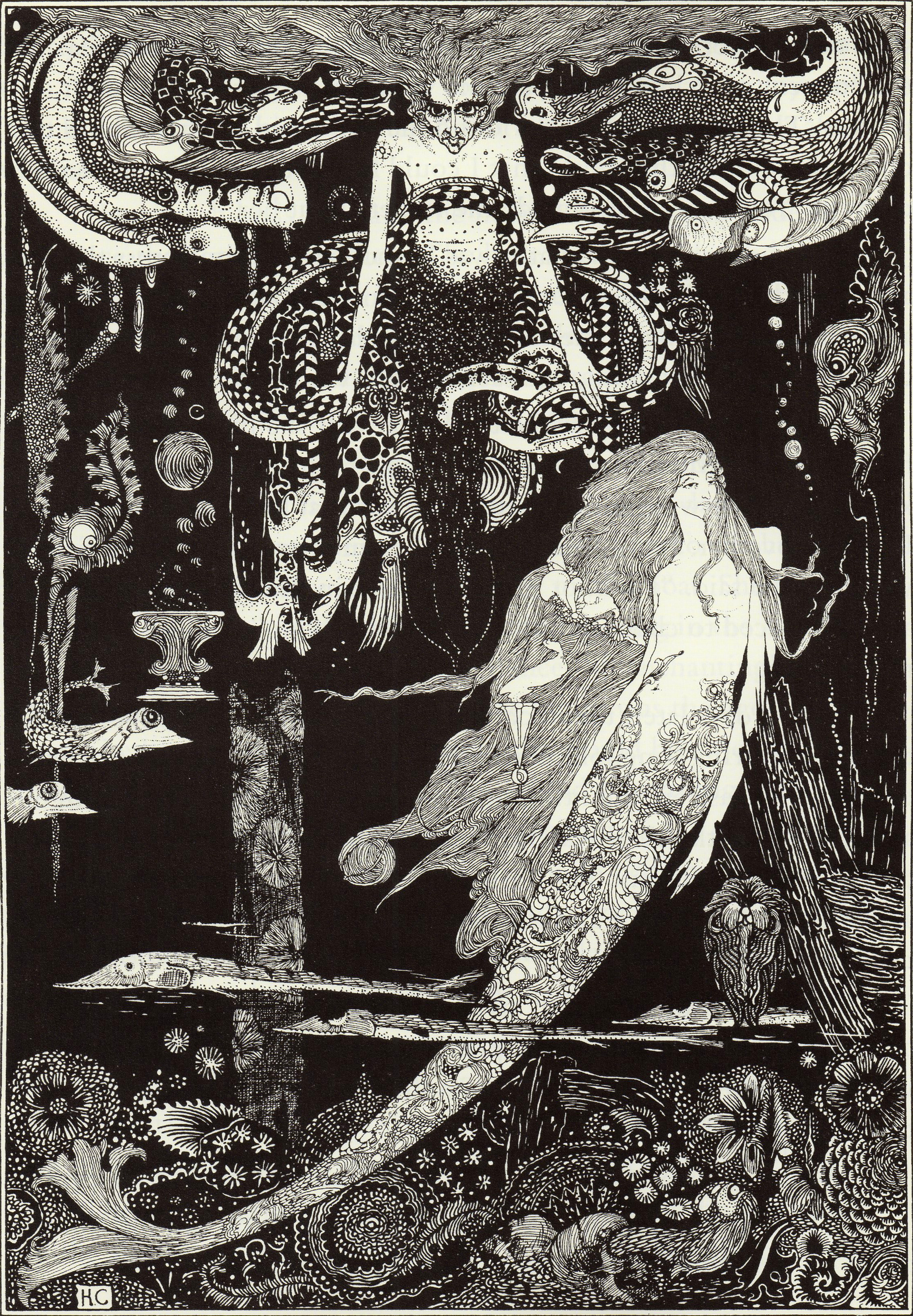 "'I know what you want' said the sea witch", from Hans Christian Andersen's fairy tale of "The Little Mermaid". Engraving by Harry Clarke. (Source) From The Fairy Tales of Hans Christian Andersen (source) from 1916 (source).